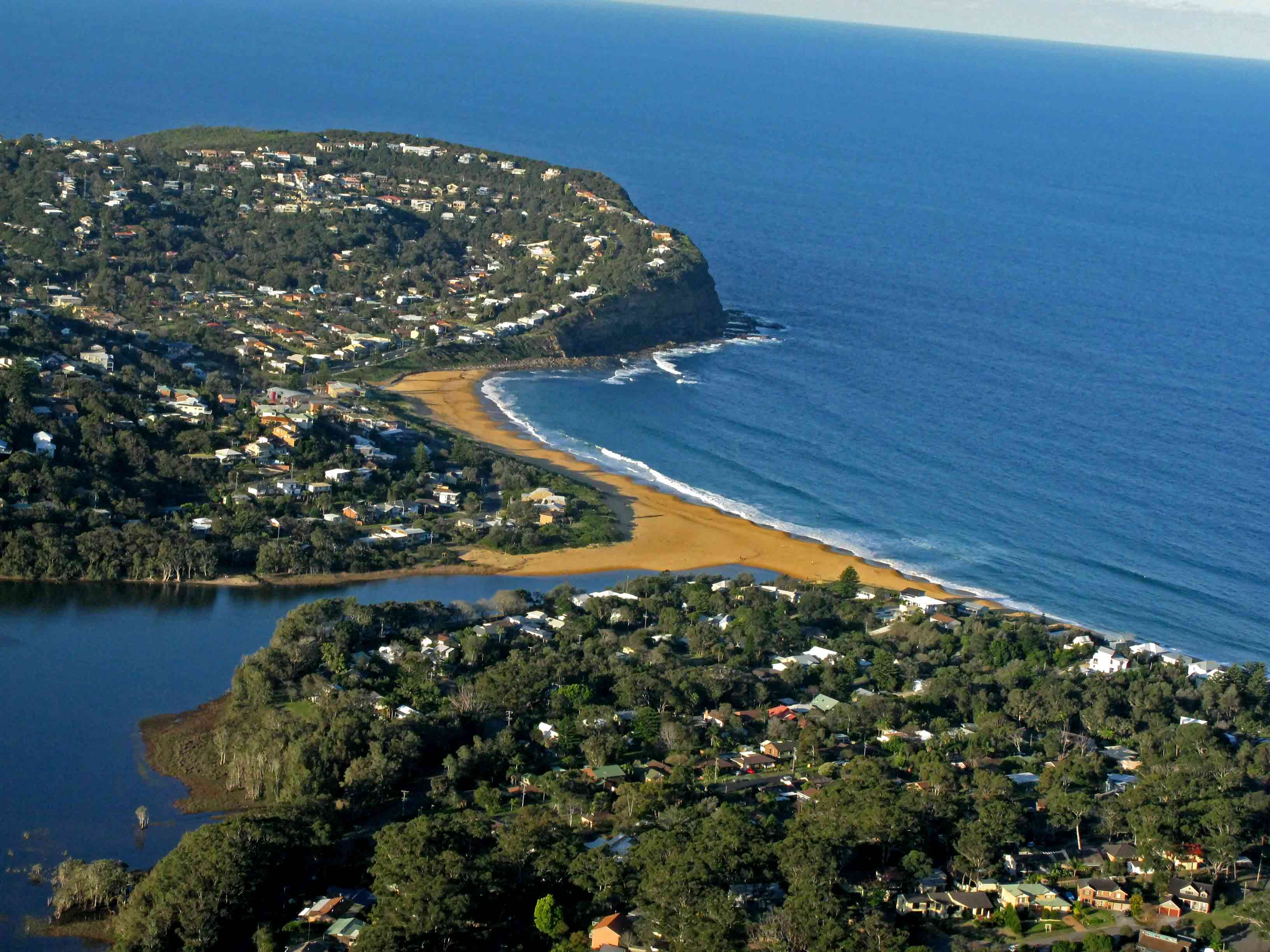 Copacobana from the air.